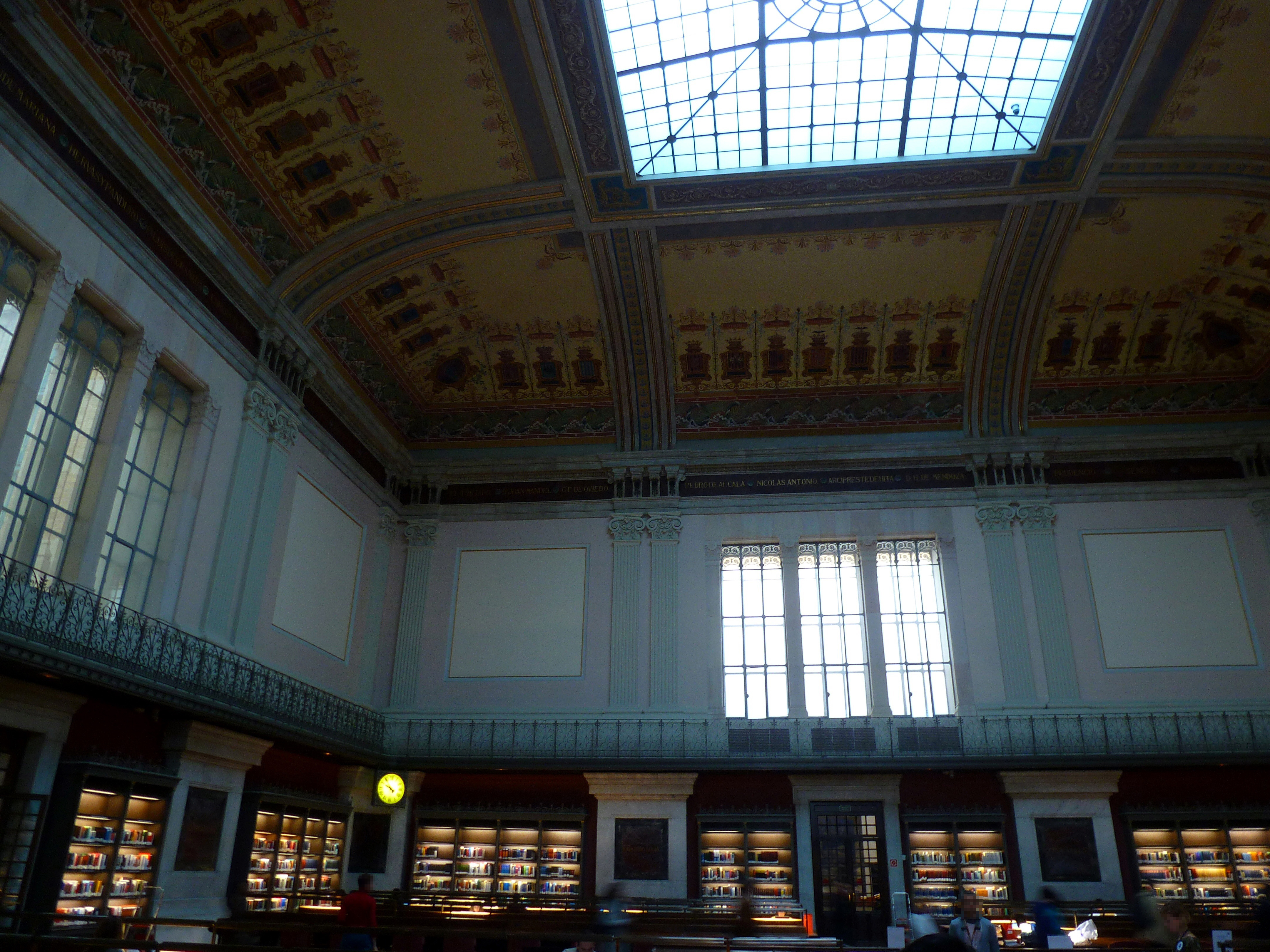 General Reading Room of the National Library of Spain.